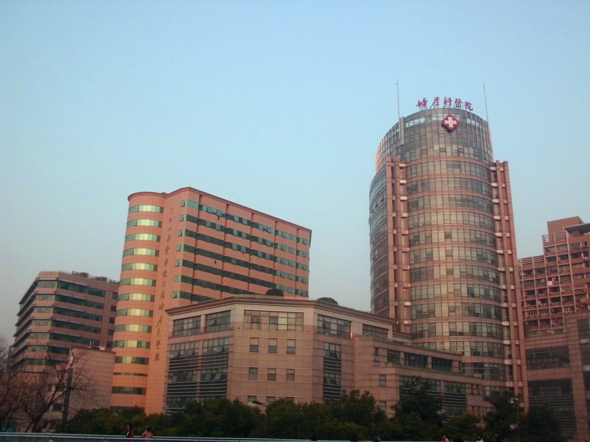 Women's Hospital of Zhejiang University